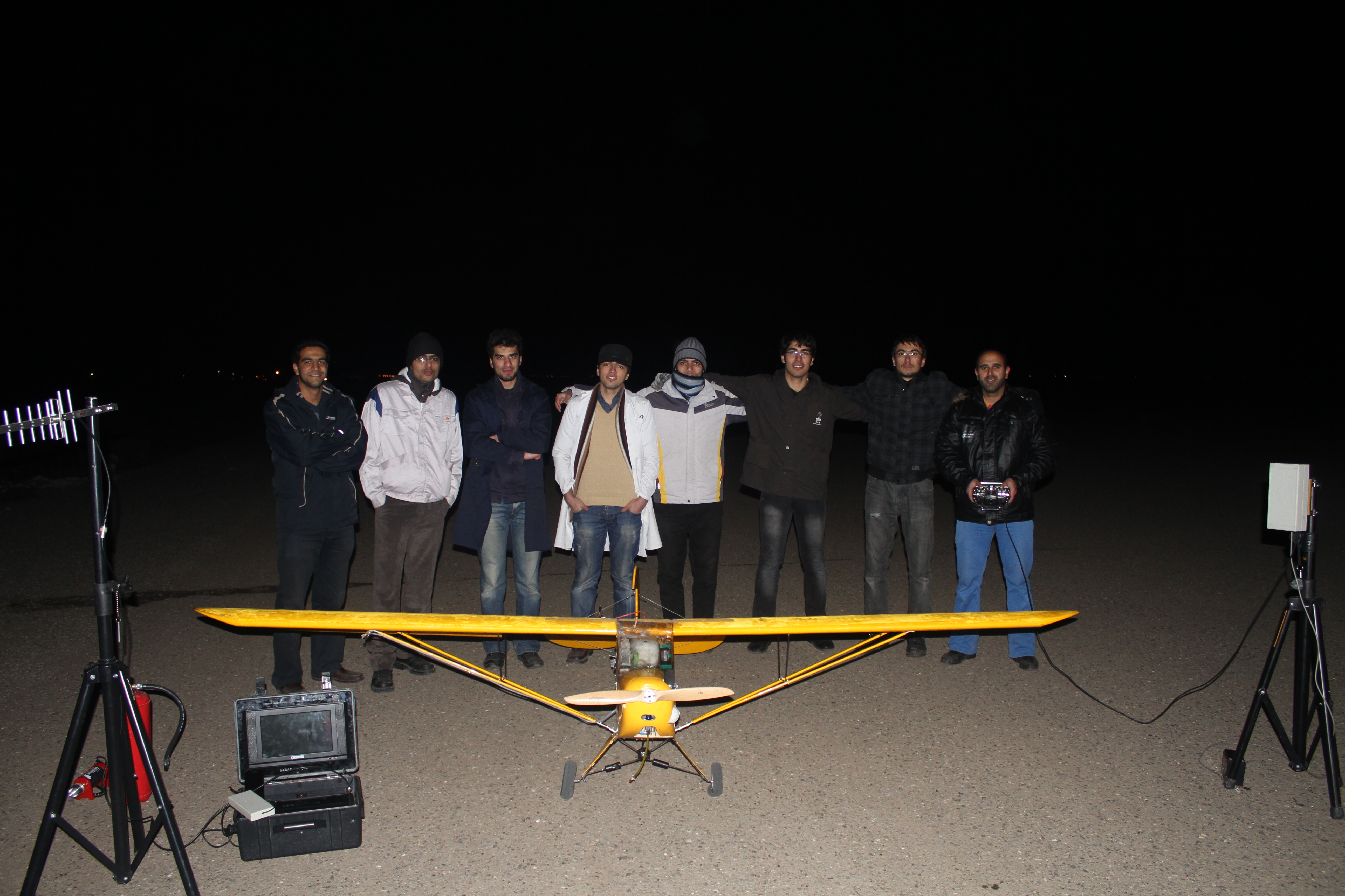 Imam Khomeini International University Aerospace Team - Sarad